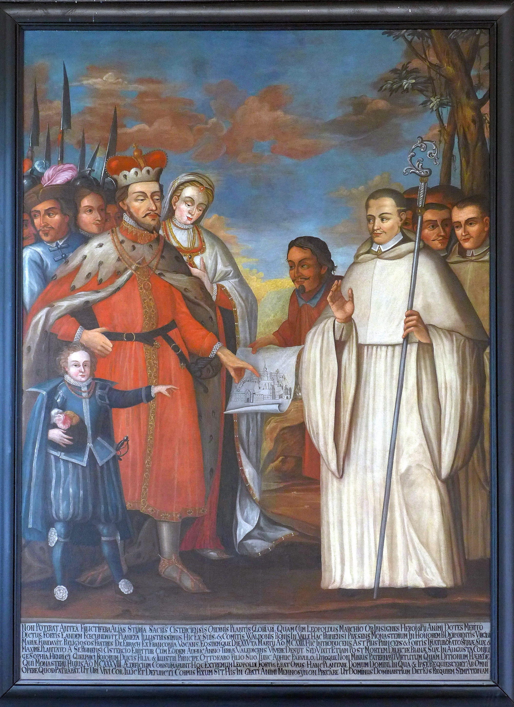 Leopold of Styria, margrave of Steyr, founder of Stift Rein